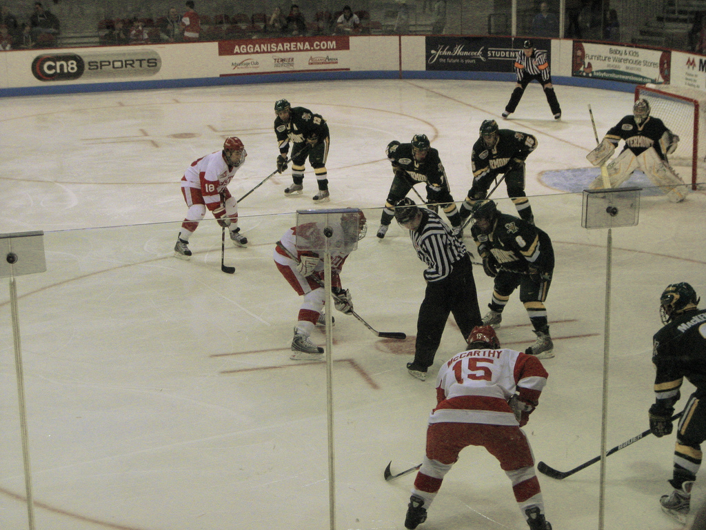 Faceoff in a junior hockey match between the Boston University and the University of Vermont. Nick Bonino (white jersey) is centering Brandon Yip on the left and John McCarthy on the right.